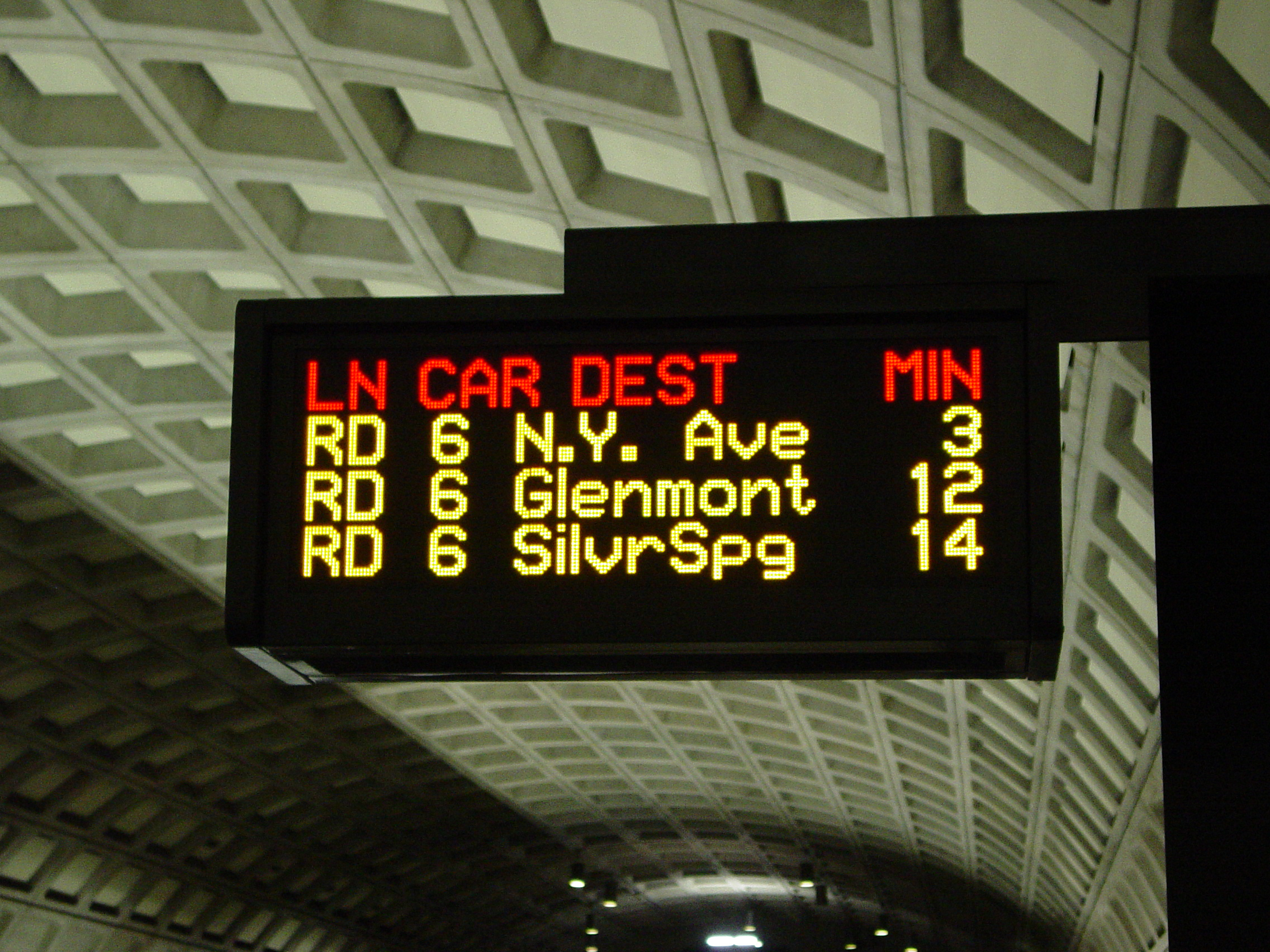 Washington Metro, Passenger Information Display System (PIDS) display at Dupont Circle station in Washington, D.C.